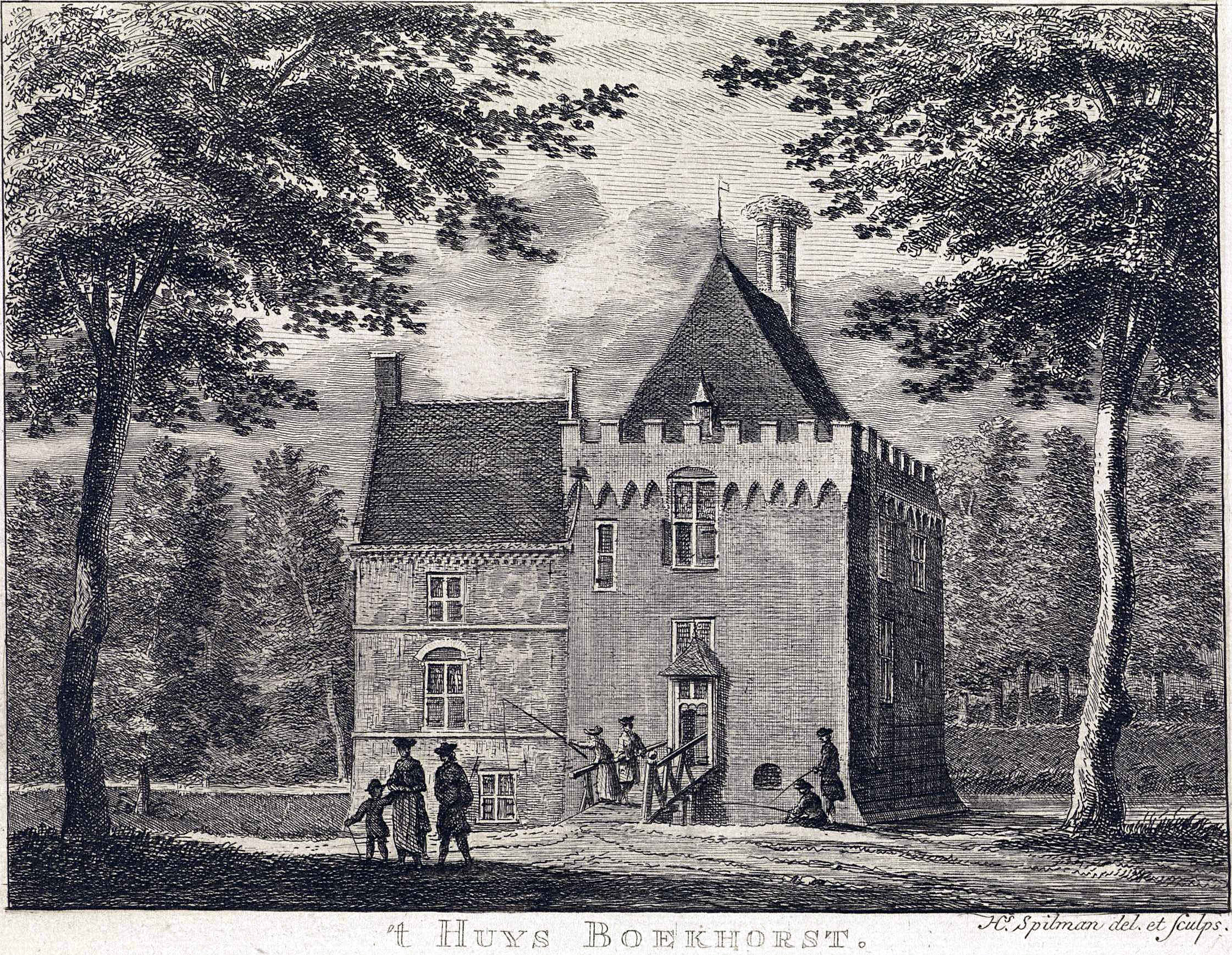 Boekhorst castle near Noordwijkerhout